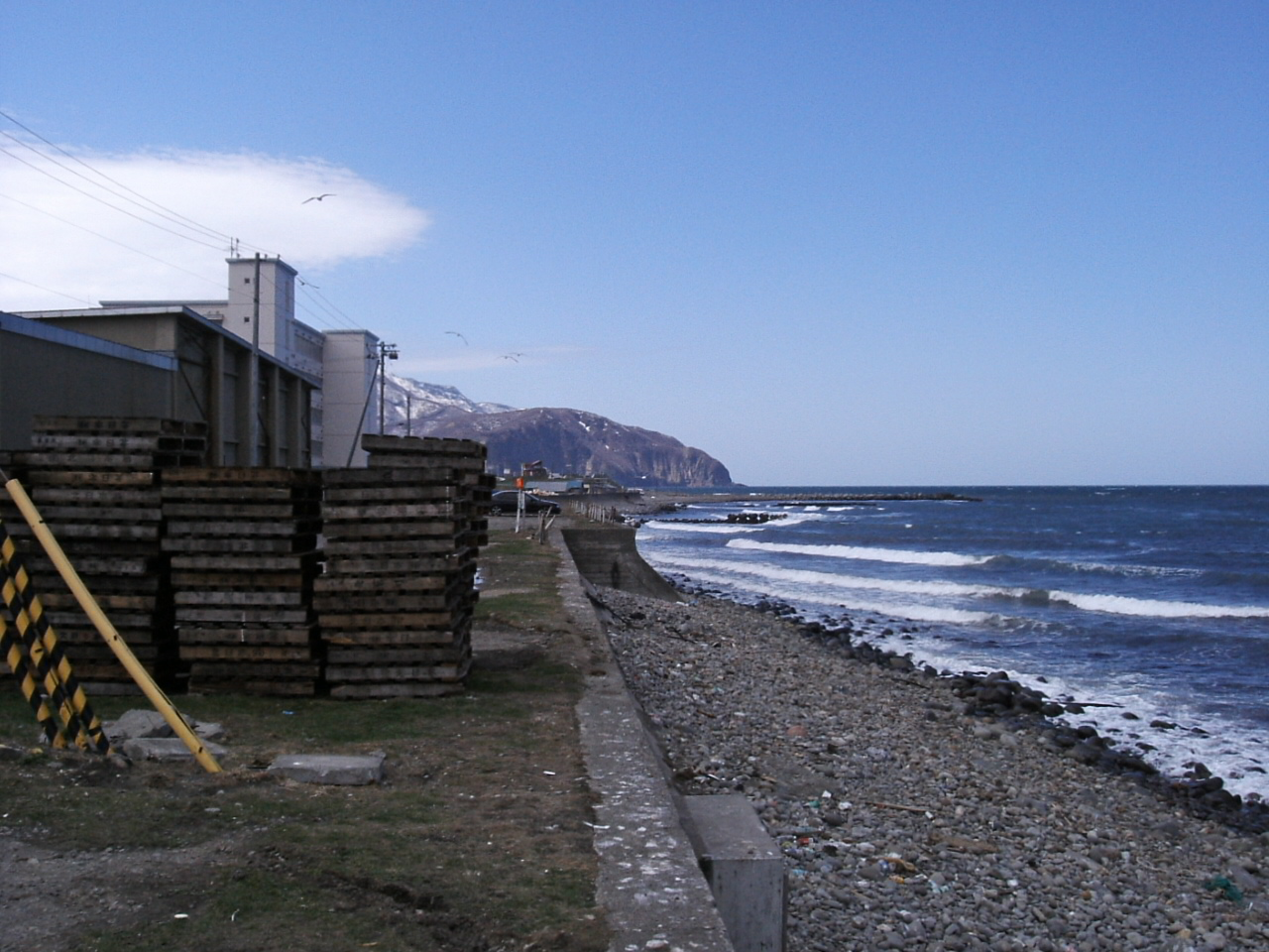 The coast of the Sea of Japan near Shokan Beach in Mashike, Hokkaidō, Japan.